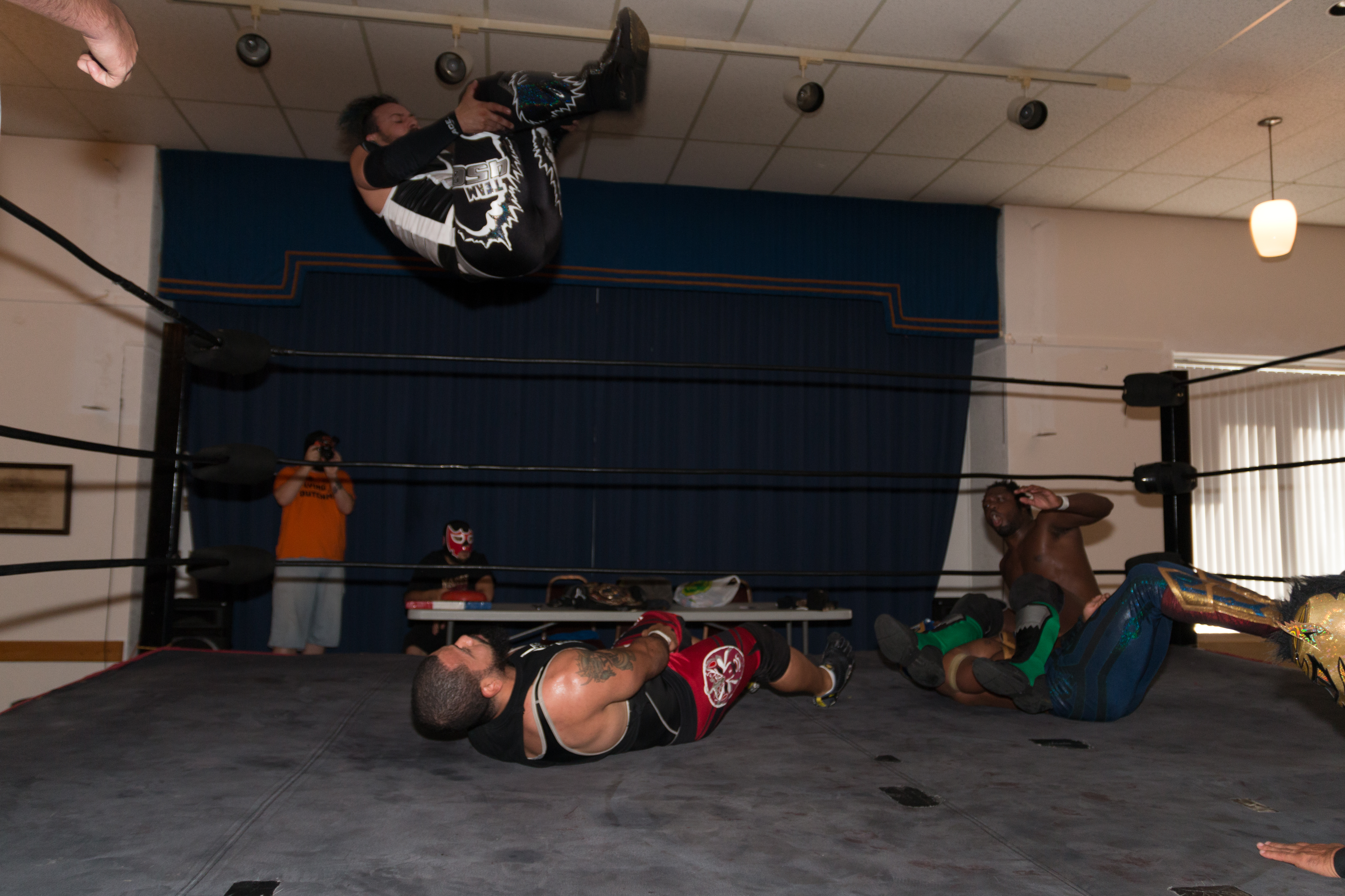 Mr 450 executing a 450 splash onto one of the member of the tag team EYFBO at a LuchaTO show in Etobicoke, ON